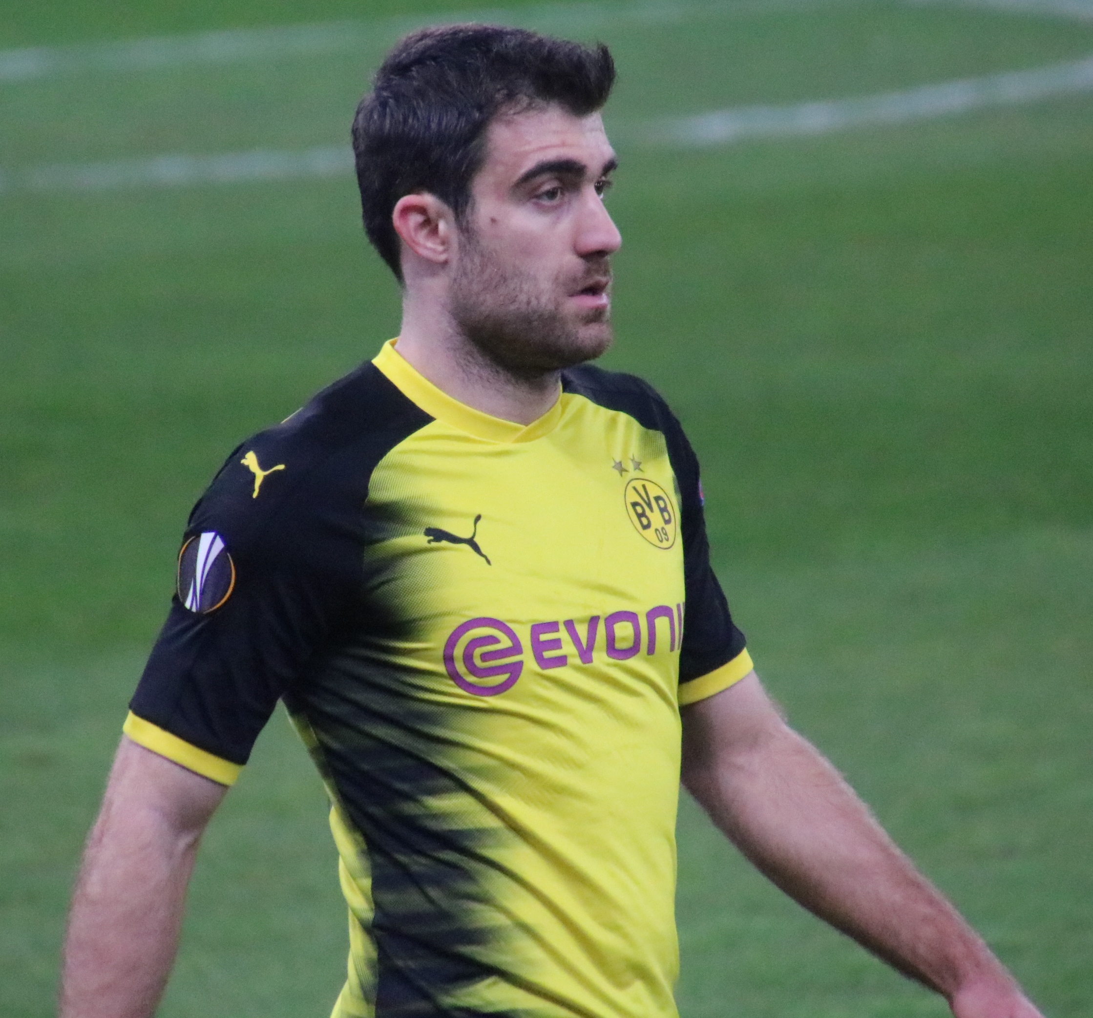 UEFA Euro League Achtelfinale Rückspiel